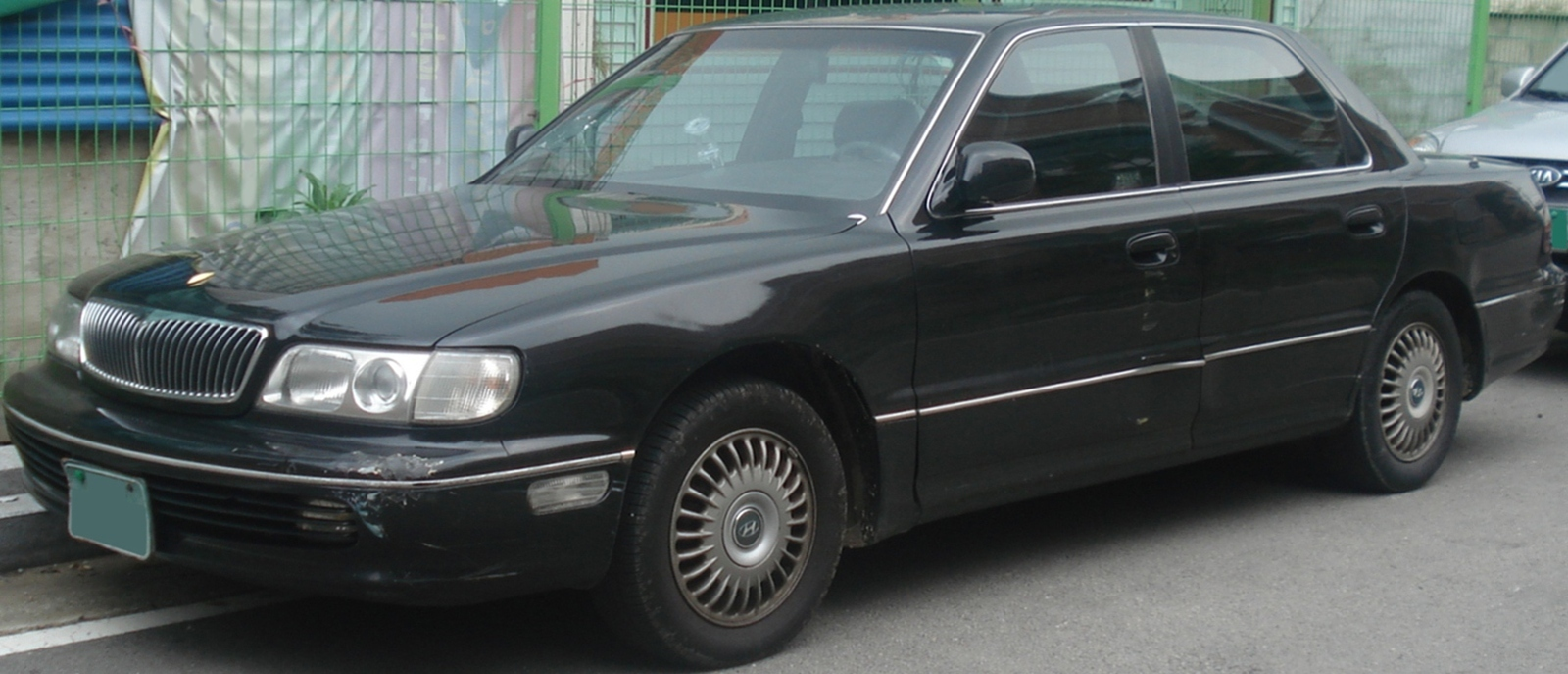 Hyundai New Grandeur